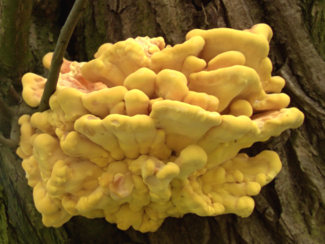 Sulphur Shelf at the Leiemeersen near Oostkamp, Belgium.